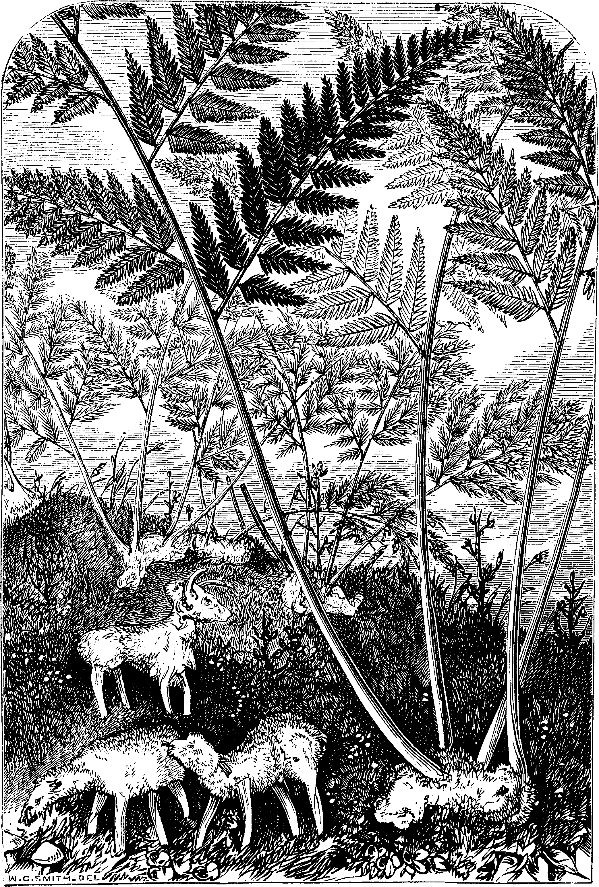 The Vegetable Lamb of Tartary (from Svenska Familj-Journalen, 1879)